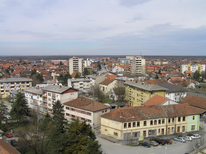 Odzak 2008